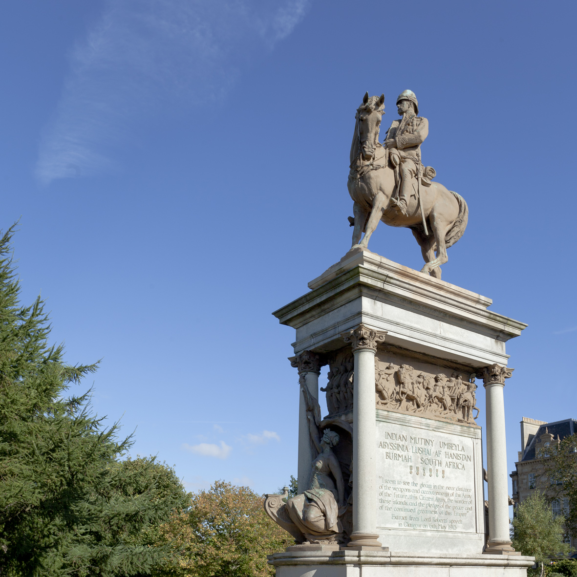 Statue by Henry Poole of Lord Frederick Sleigh Roberts, of Khandahar, Pretoria and Waterford (1832-1914). Erected in Kelvingrove Park, in Glasgow, it was unveiled on 21st August 1916. Except for the pedestal inscriptions, this is a replica of a bronze piece by Harry Bates that stands in Calcutta.